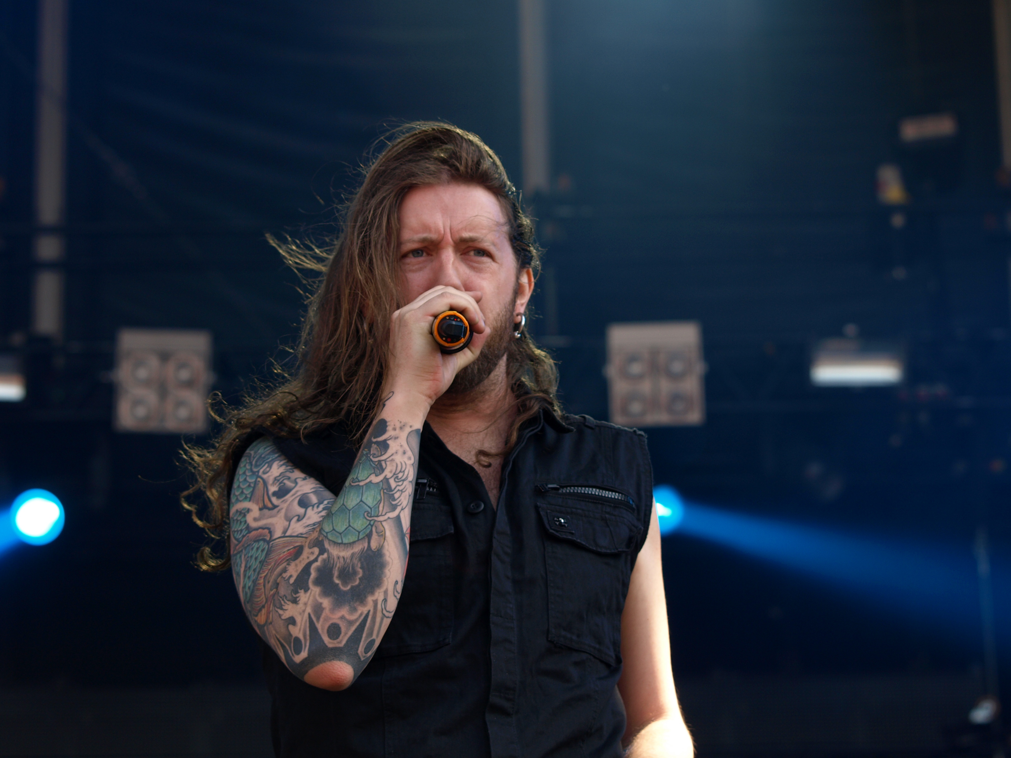 Swedish band Amaranthe at Tuska Open Air 2013